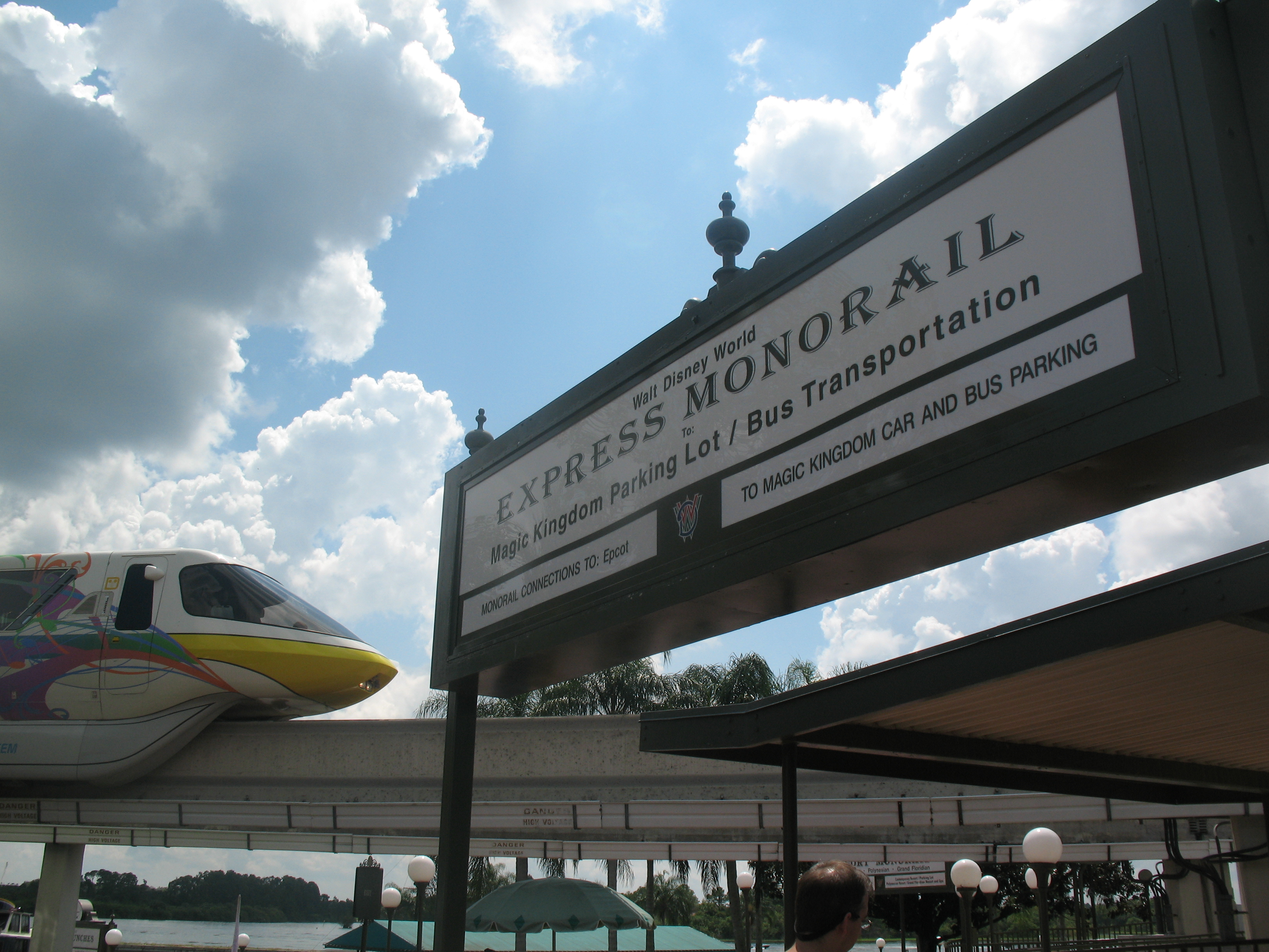 Monorail at Walt Disney World in Florida Monorail Yellow approaching the Magic Kingdom station with entrance sign.